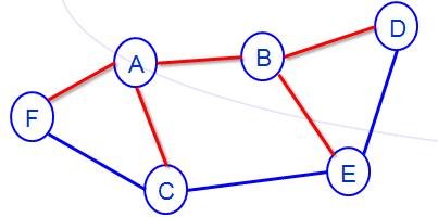 Cây tối đại